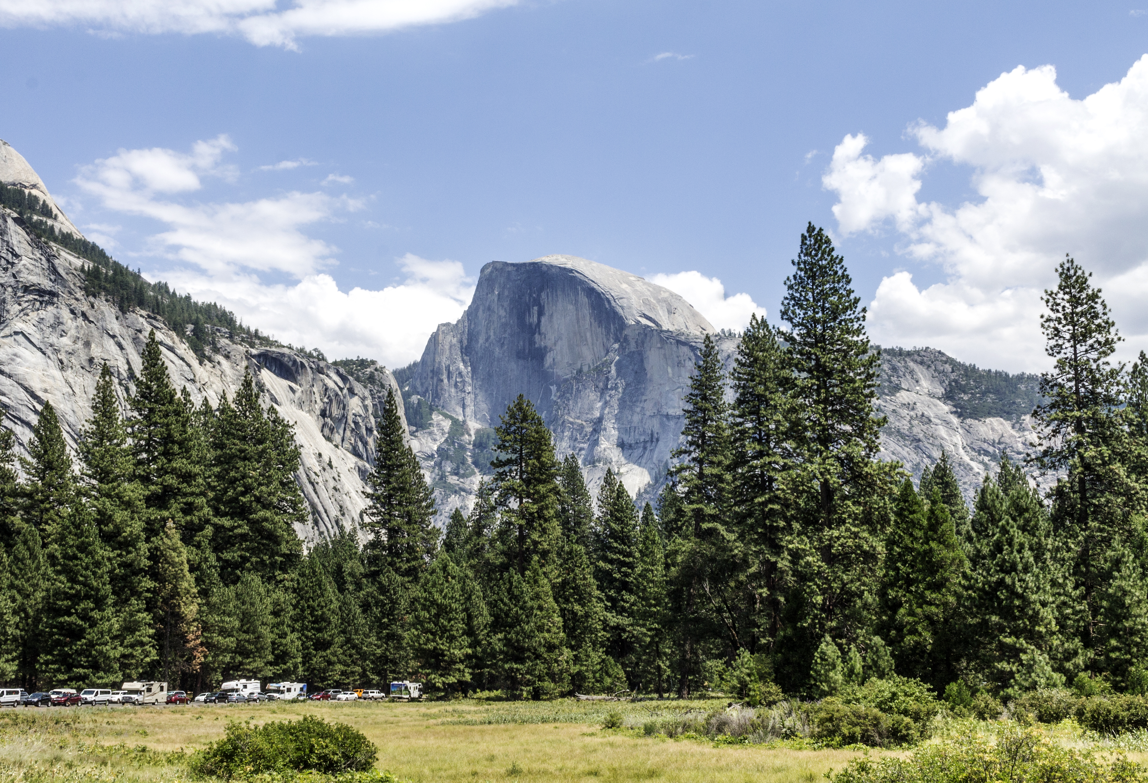 A shot of Half Dome as taken near the Yosemite Falls Trailhead in Yosemite Valley California